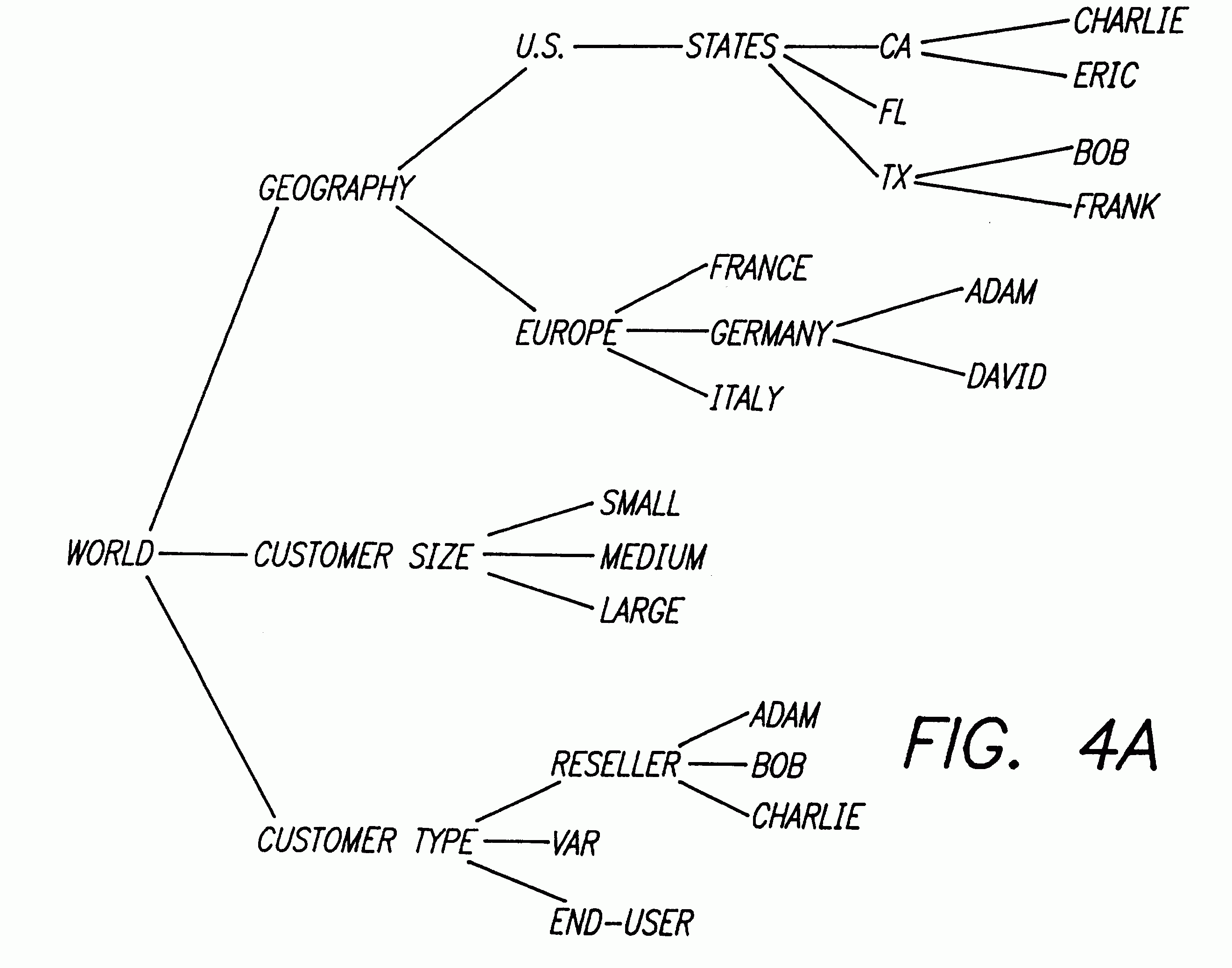 This diagram from the 850 patent illustrates the invention and the court refers to it in its opinion in Versata v. SAP.